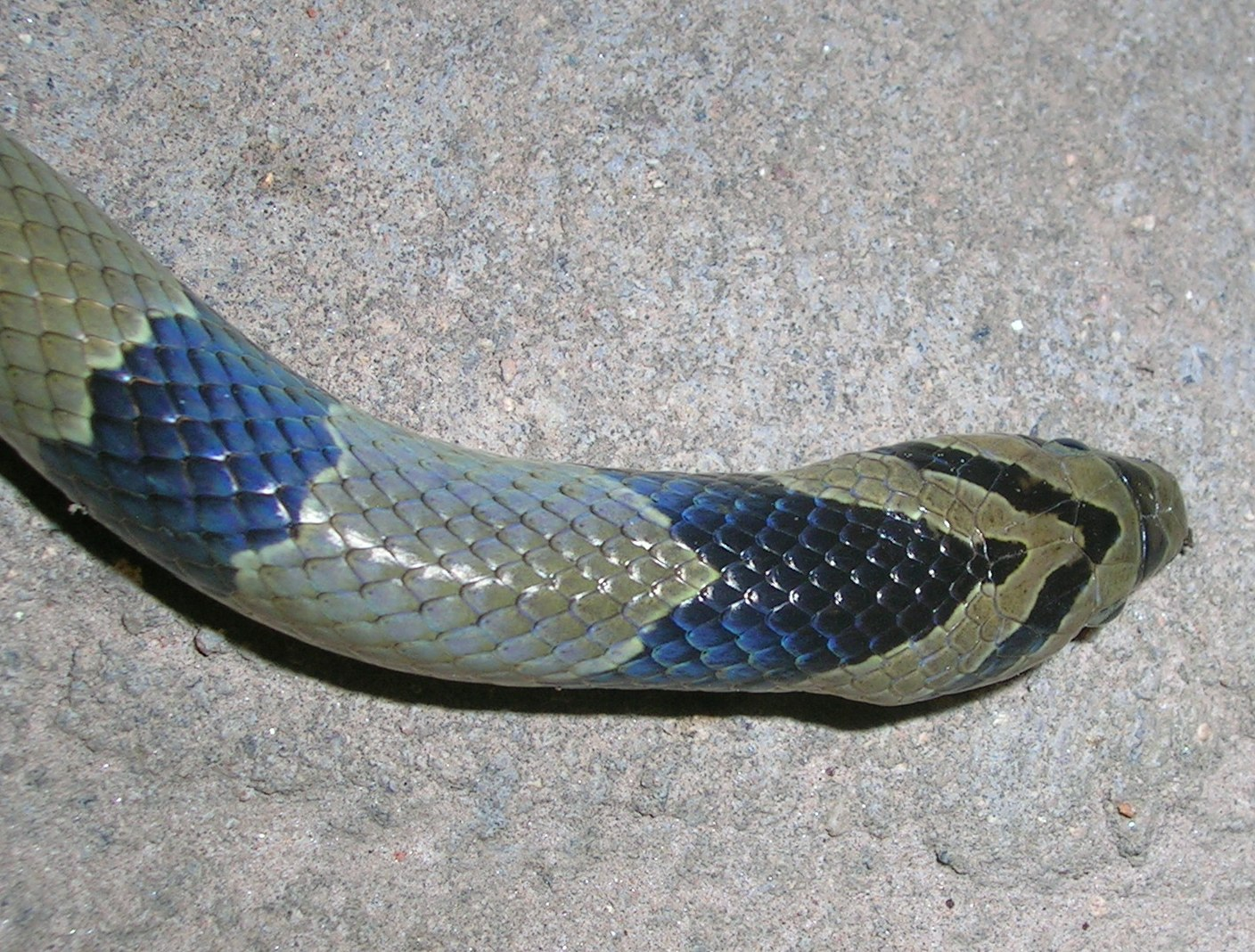 Head of Kukri snake Oligodon cf arnensis, Bangalore